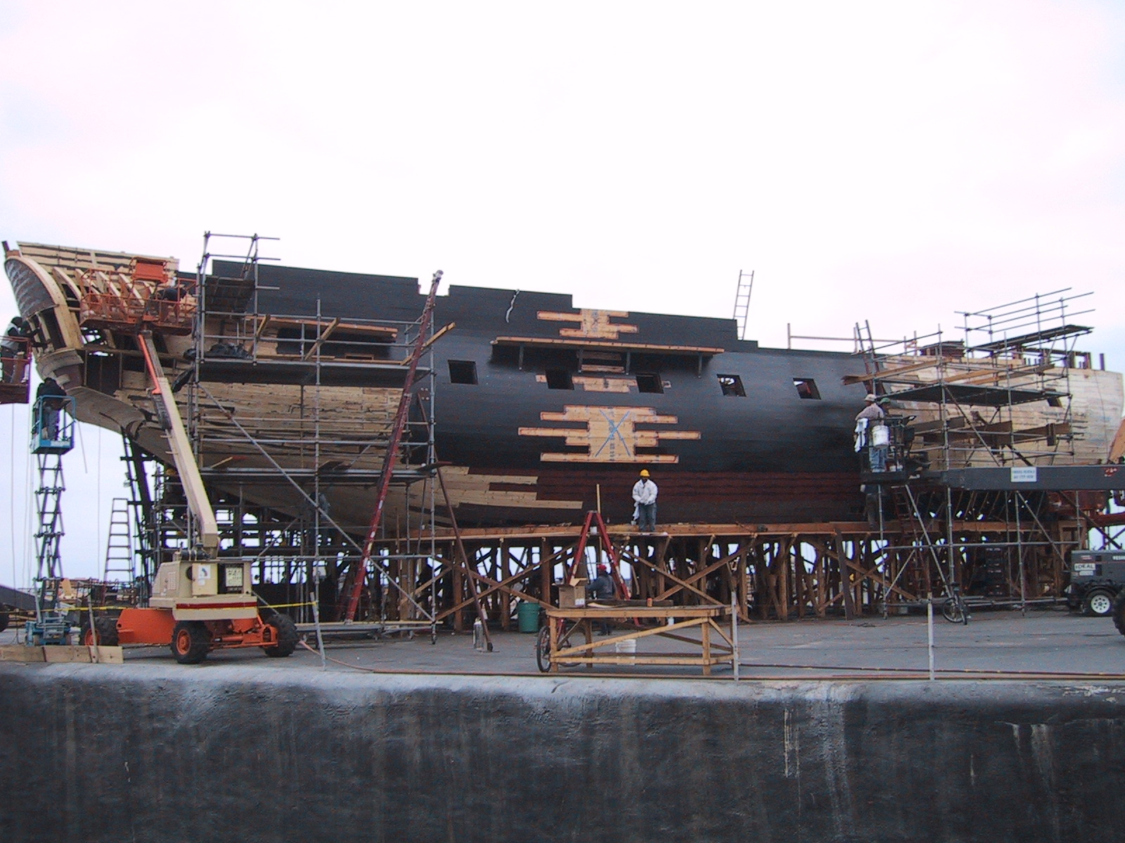 Photo taken by Richard Bailey, the Skipper of HMS Rose during preparations for the filming of "Master and Commander: The Far Side of the World" (2001). Alongside Tank 1.